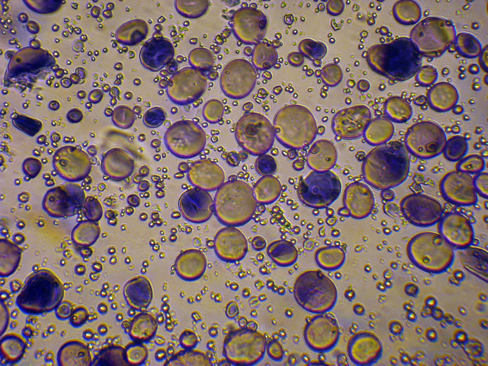 photo from light microscope, wheat starch granules stained with iodine (Lugol-reactive)